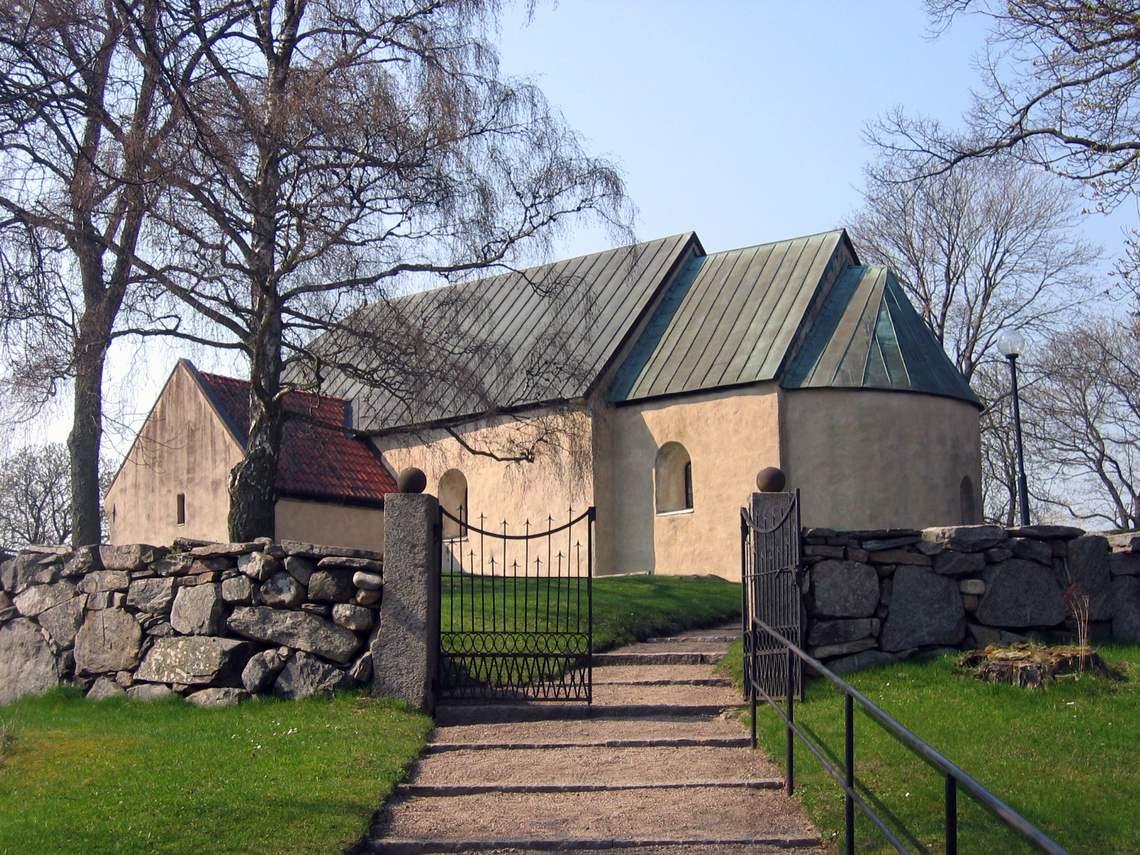 Ignaberga gamla kyrka Foto: Fantomen Date: 5 maj 2006 The image is released in {gfd} License by me. Feel free to use it!